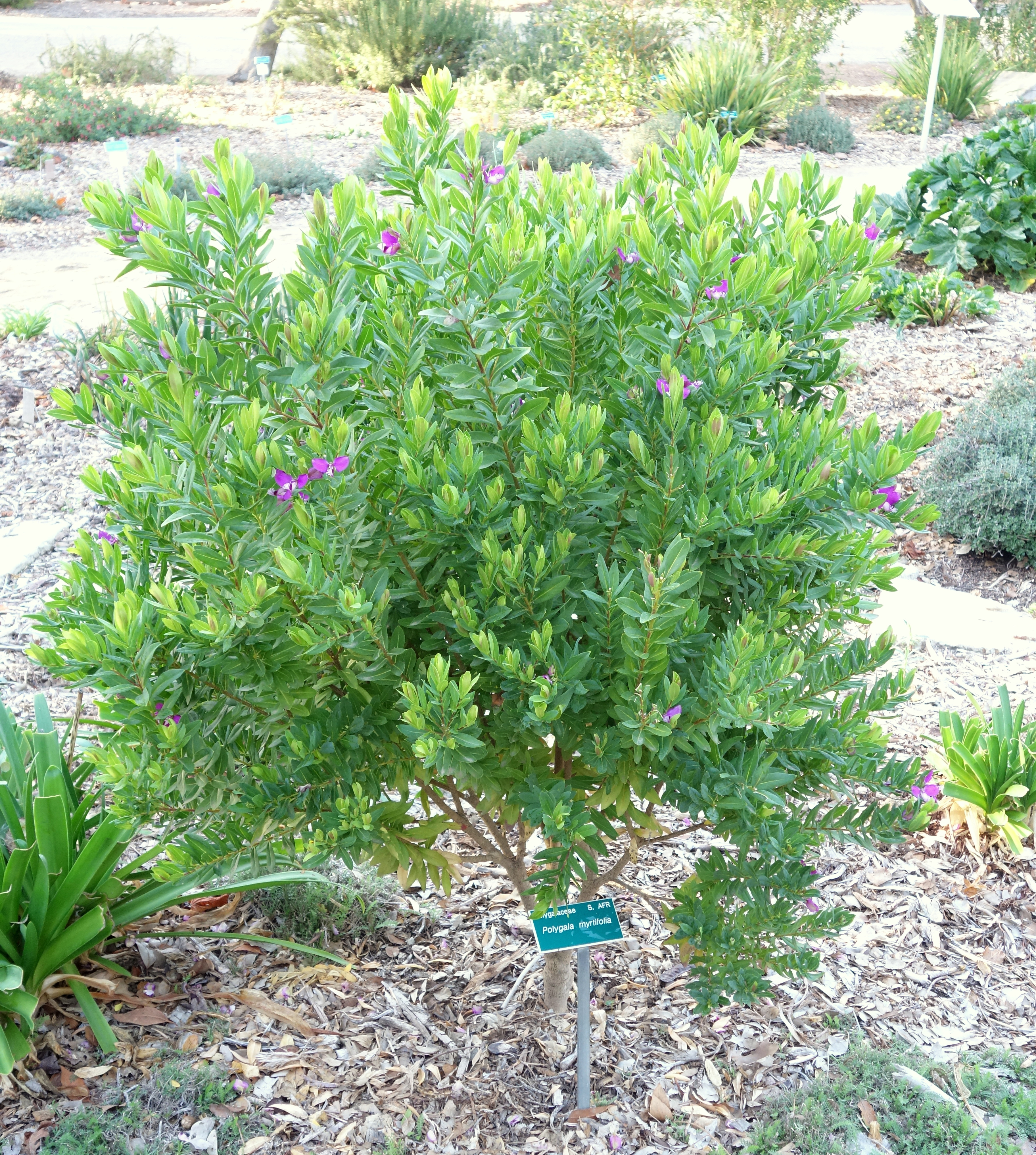 Botanical specimen in the San Luis Obispo Botanical Garden - in El Chorro Regional Park, San Luis Obispo, California, USA.